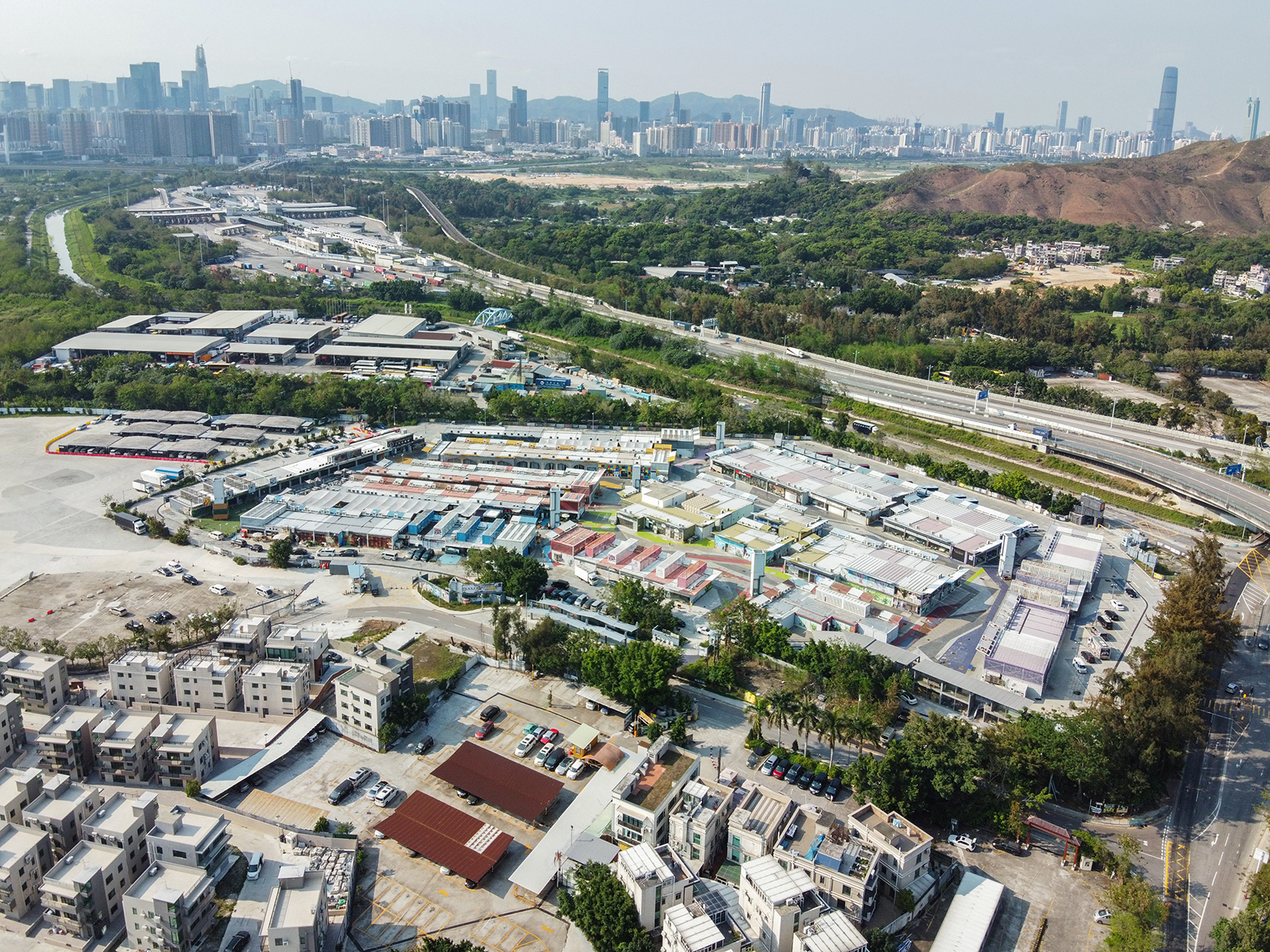 San Tin The Boxes